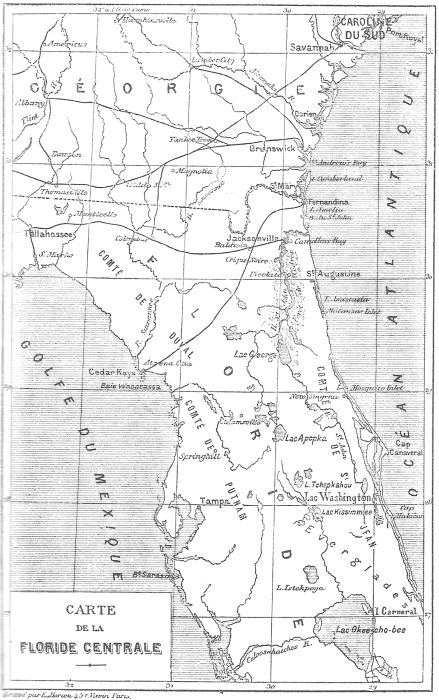 An ilustration from the novel "North Against South" (or "Texar's Revenge, or, North Against South") by Jules Verne painted by Léon Benett.